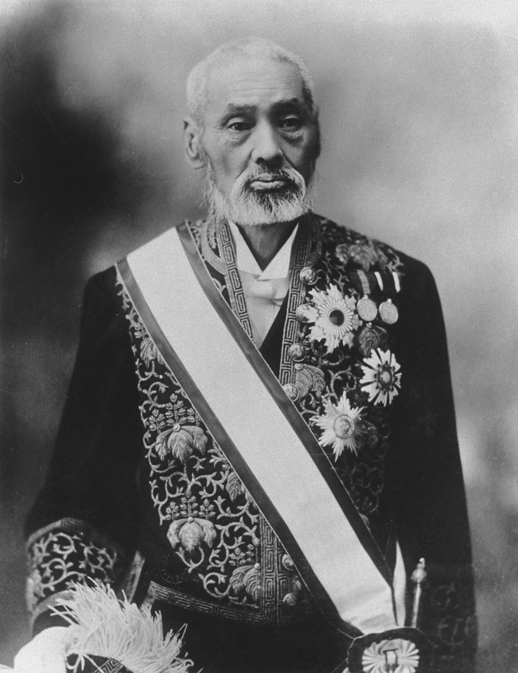 Portrait of Kato Hiroyuki (加藤弘之, 1836 – 1916)